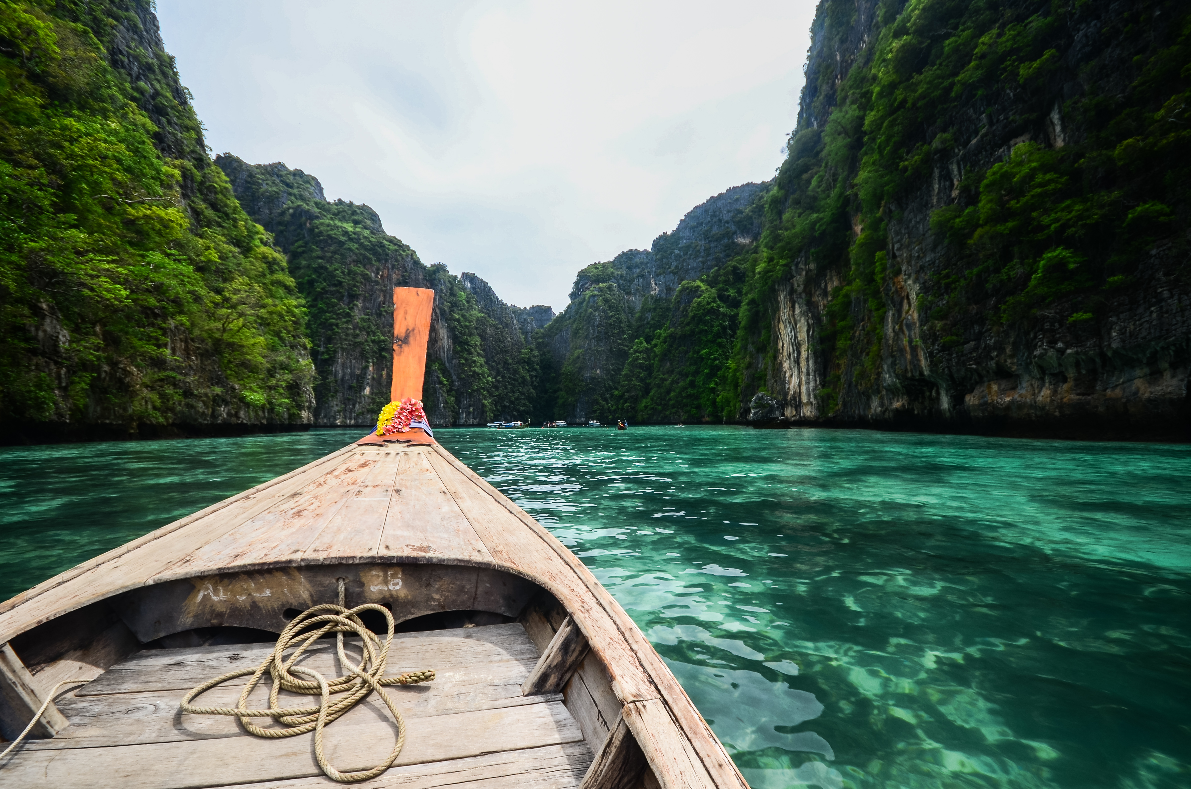 อุทยานแห่งชาติหาดนพรัตน์ธารา-หมู่เกาะพีพี